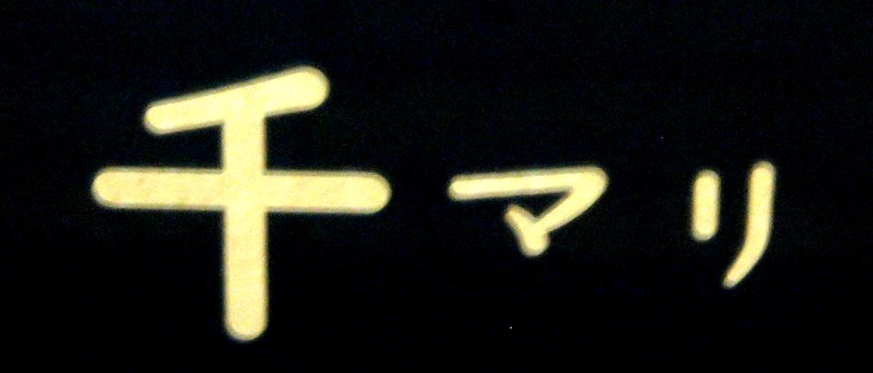 Symbol of JR East Makuhari Rolling Stock Center, marked on its rolling stock